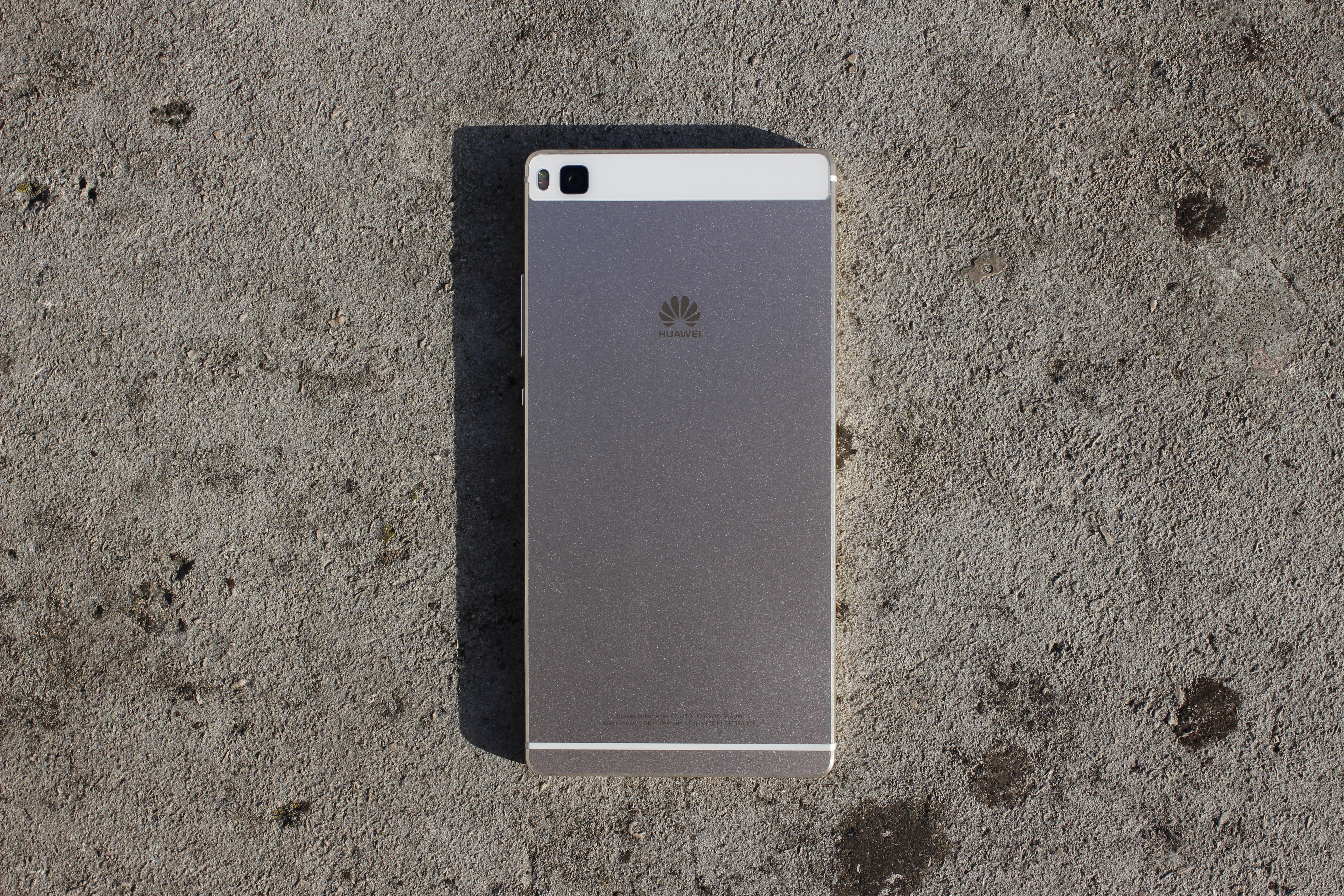 Huawei P8 smartphone